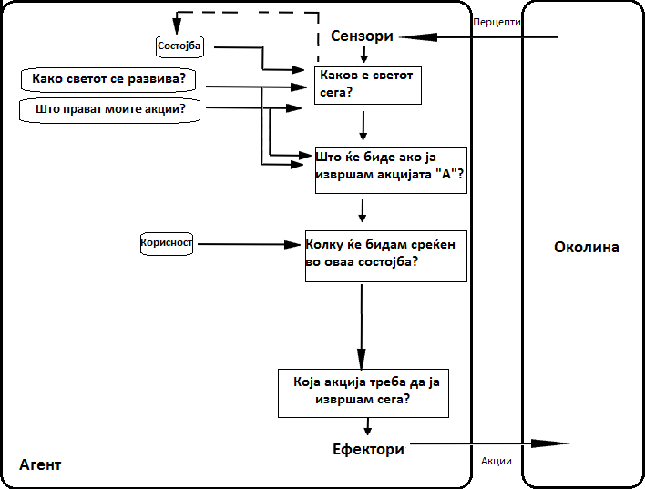 Intelligent agent